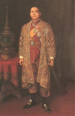 Crop of portrait of King Vajiravudh which is displayed in the Chakri Mahaprasad Hall at the Grand Palace, Bangkok